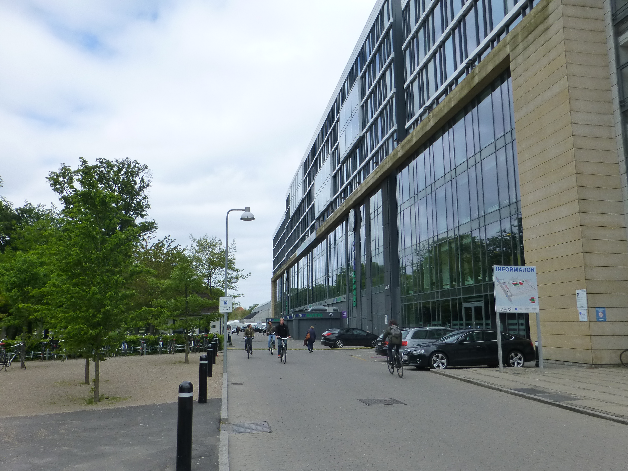 The street Per Henrik Lings Allé at the national soccer stadium Parken in Østerbro in Copenhagen.